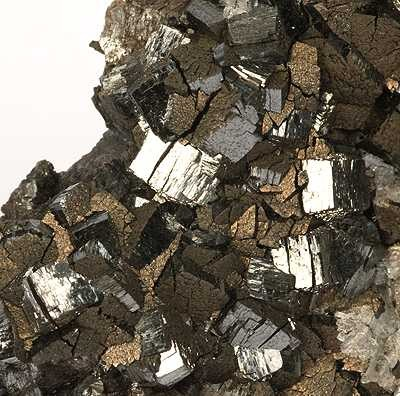 Ramsdellite Locality: Mistake Mine (Box Canyon deposits), Sam Powell Peak, Box Canyon District, Yavapai County, Arizona, USA (Locality at ) Size: 5.6 x 4.2 x 1.6 cm. Emplaced on matrix, this plate of equant, splendent, black ramsdellite crystals, to .5 cm across is partially coated by a thin, white, mineral that may be gypsum. Superb example by previous standards, this is a very aesthetic specimen that in person really stands out.